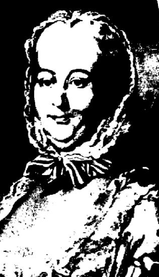 Anne-Charlotte de Crussol, duchess of Aiguillon (b. 1700, d. 1772), French woman, friend of the philosophers.